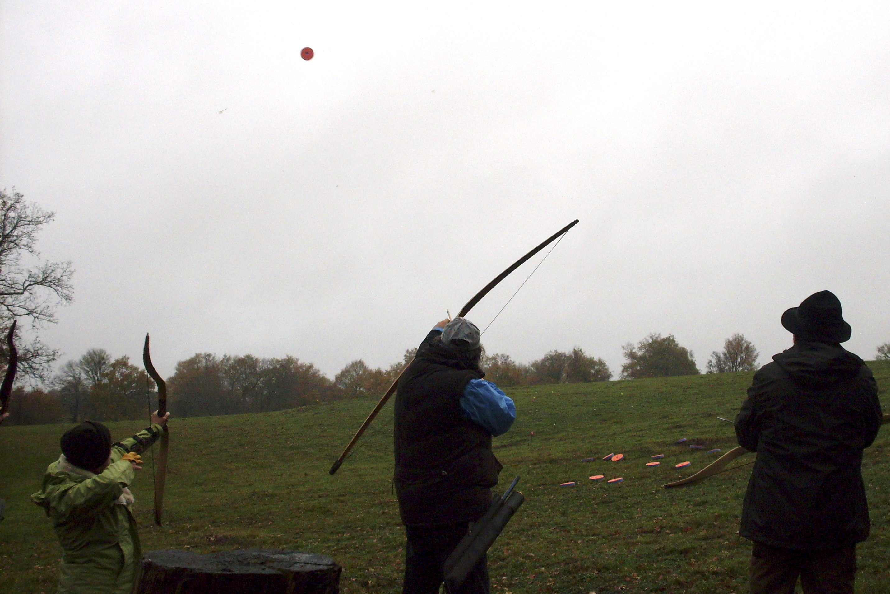 Archery trap machine - shooting archers